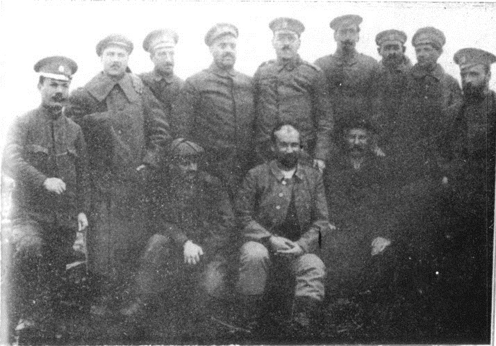 Soldiers from 7th Rila Division in 1915 Standing Right Dimo Hadzhidimov Sitting Left Stanke Dimitrov